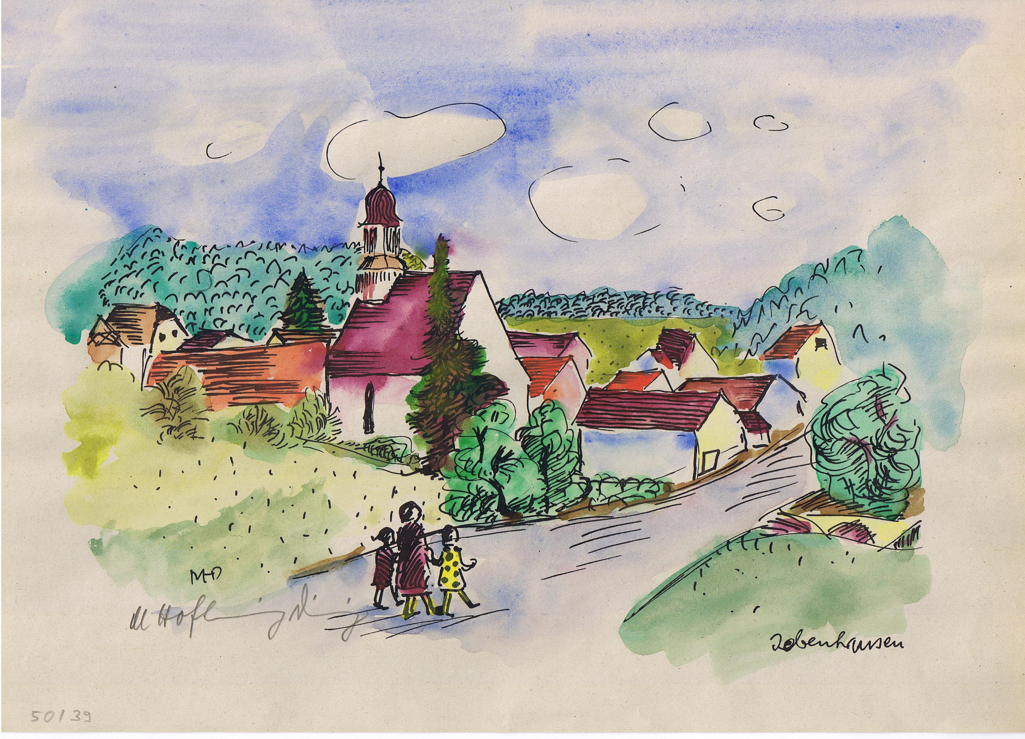 Jebenhausen, quarter of Göppingen, old church, water color